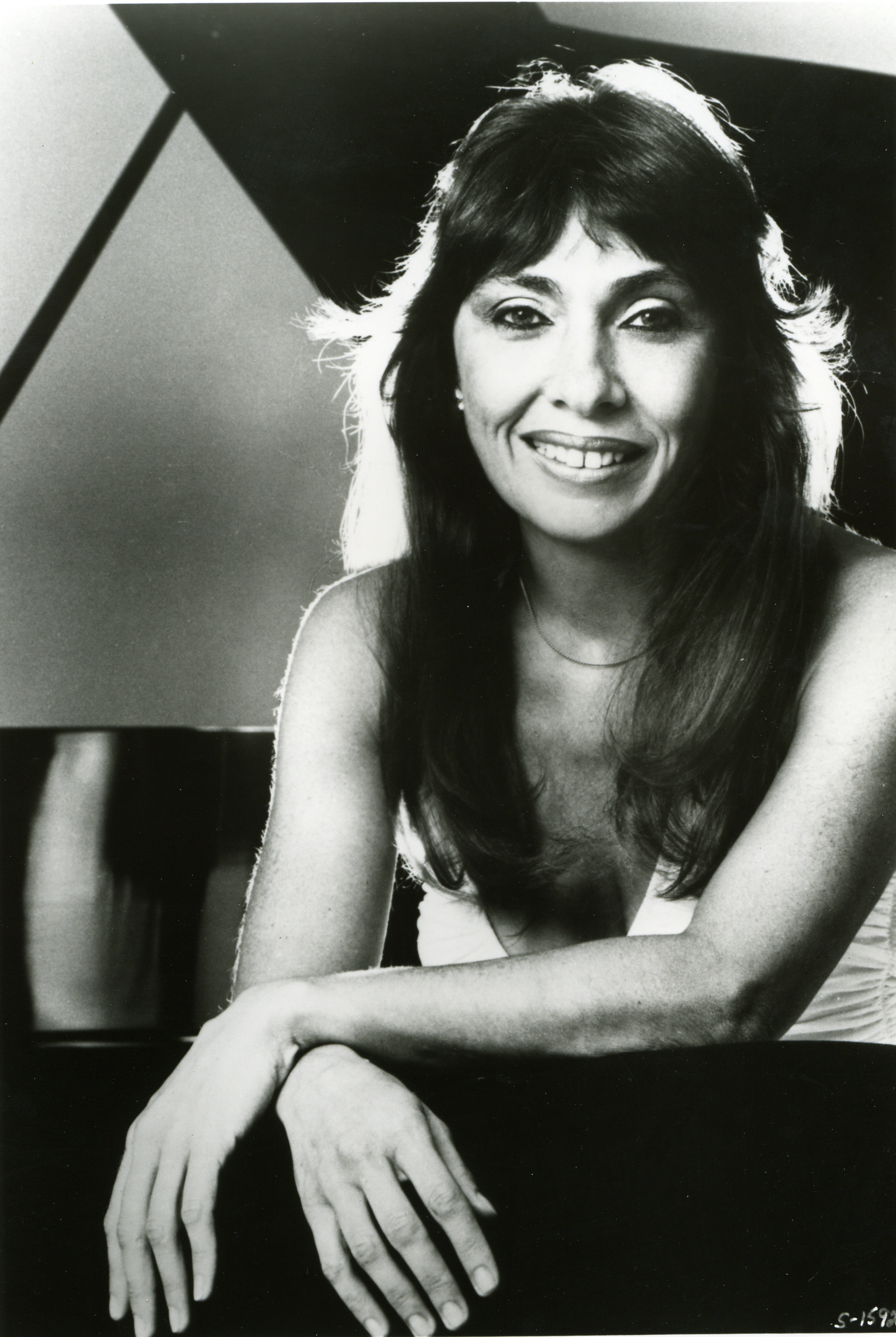 Ruth Laredo